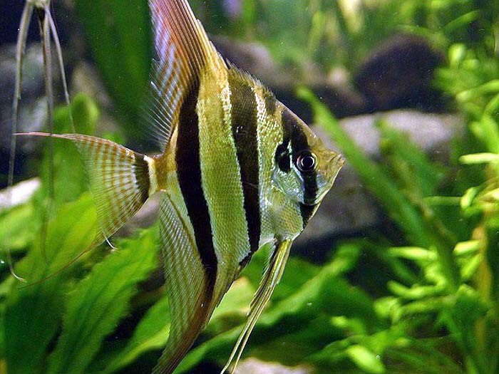 Pterophyllum altum